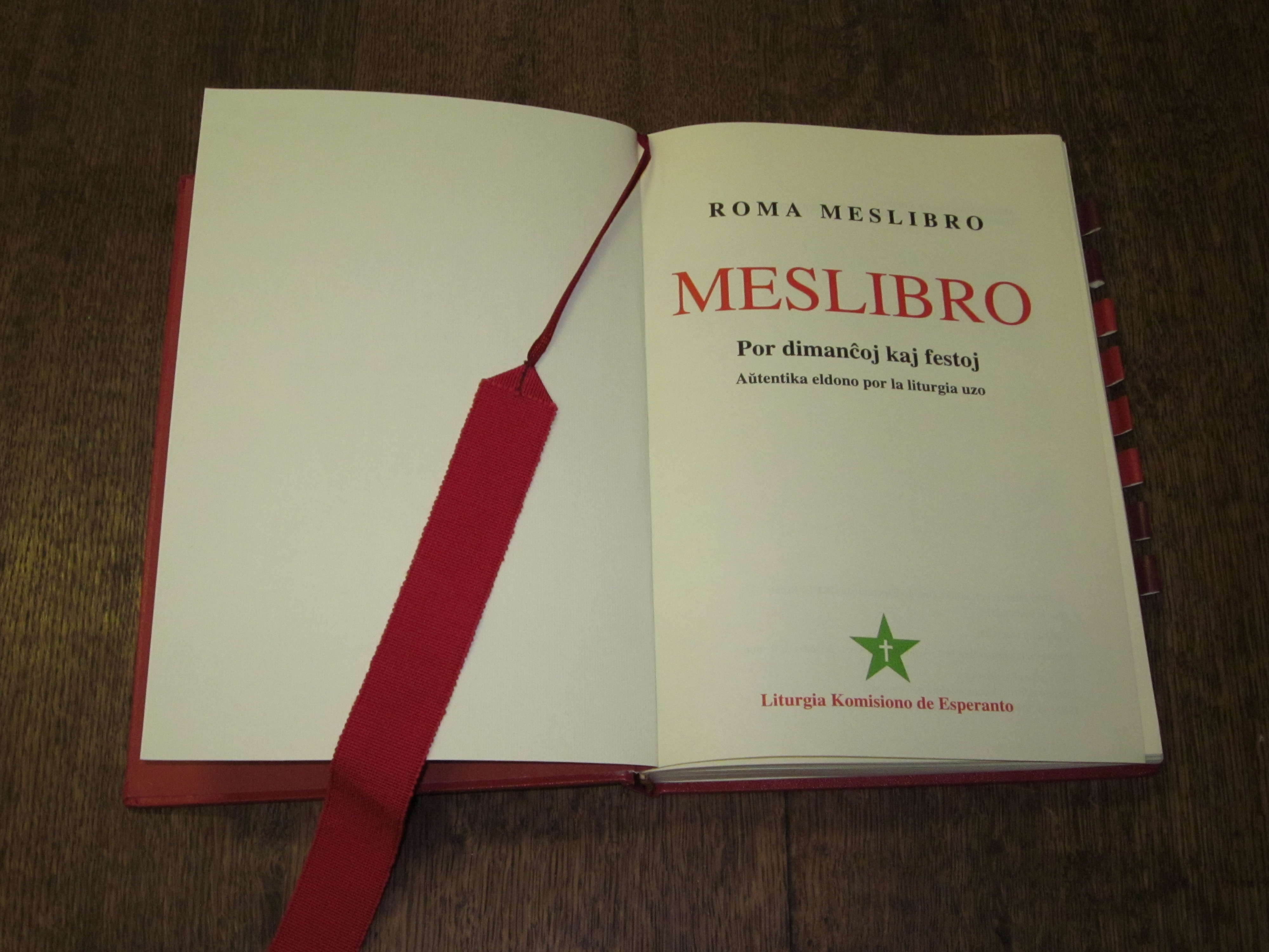 Roman Missal in Esperanto.